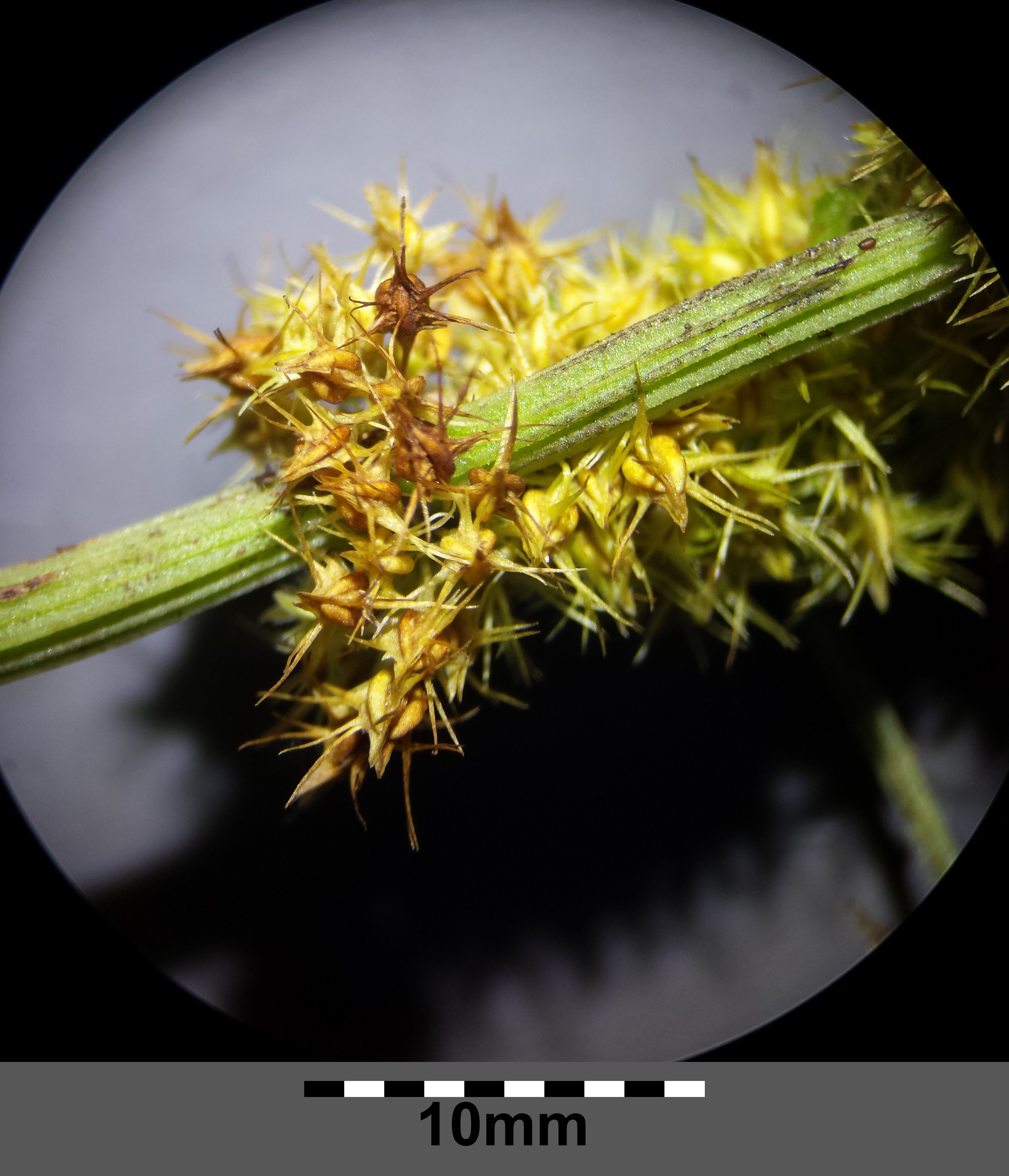 Infructescence (detail) Taxonym: Rumex maritimus ss Fischer et al. EfÖLS 2008 ISBN 978-3-85474-187-9 Location: Žárský rybník, Jihočeský kraj, Czech Republic - ca. 500 m a.s.l. Habitat: ground of a pond